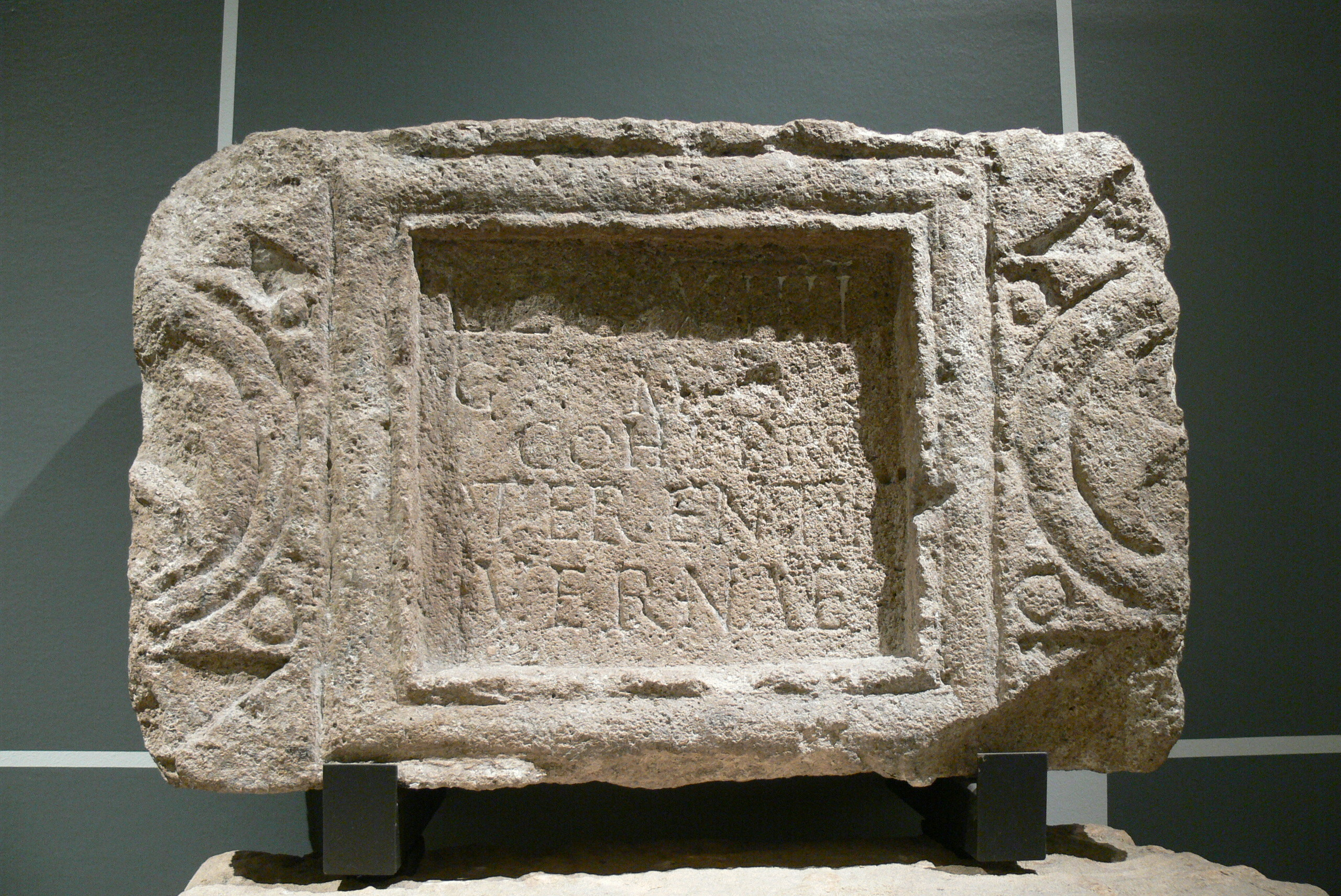 Roman Museum, Vienna. Square stone block with a building inscription of the Legio XIV Gemina Martia Victrix ( 101-114 AD ): LEG(ionis) XIV G(eminae) M(artiae) V(ictricis) COH(ortis) PR(ioris) (centuria) TERENTI(i) VERNAE ( From the centuria of Terentius Verna, prior of the 1st cohort of the 14th legion ). Found in 1911 at Fleischmarkt 6, Vienna.